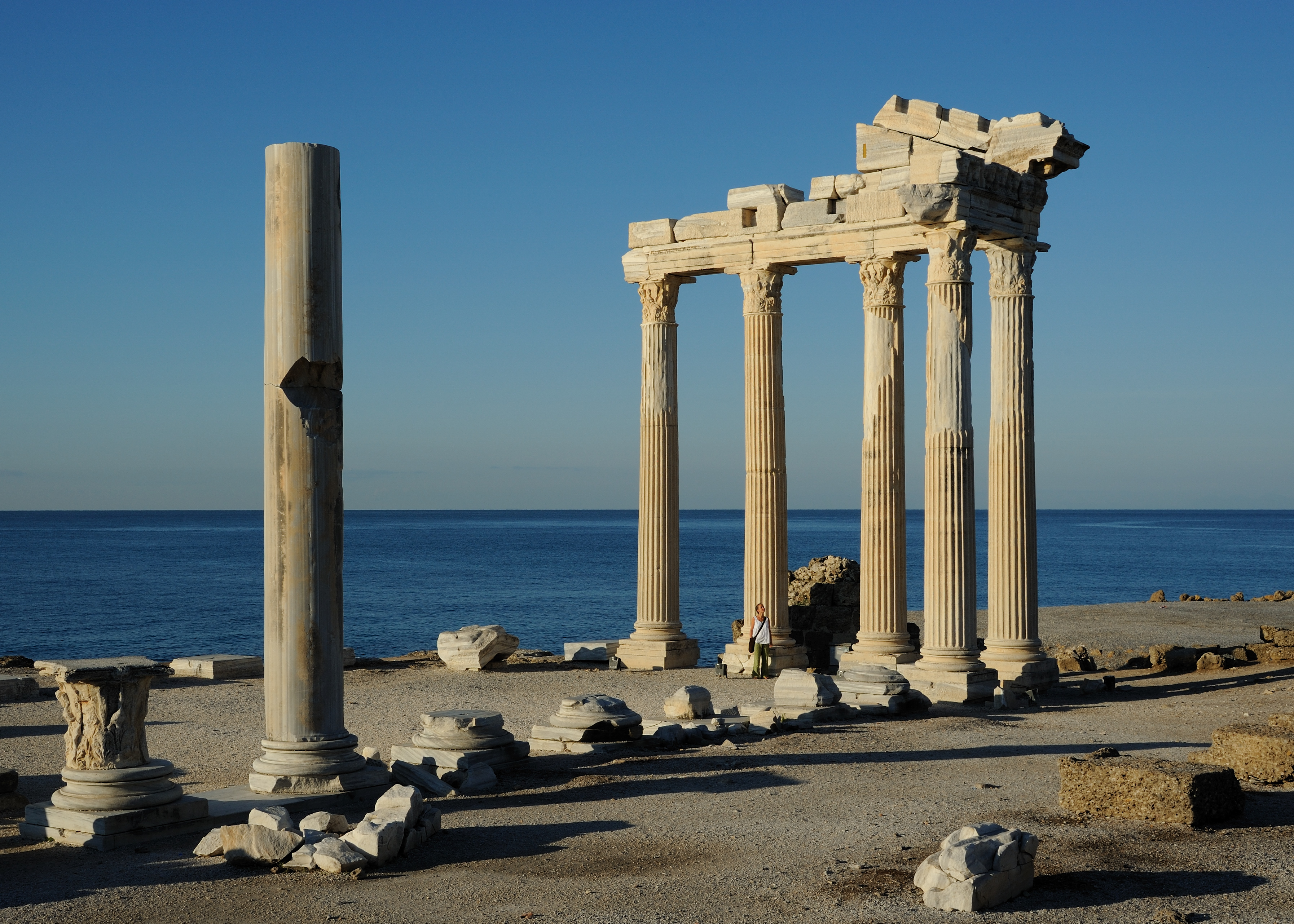 The 2nd century Roman Temple of Apollo in Side, Antalya, Turkey.